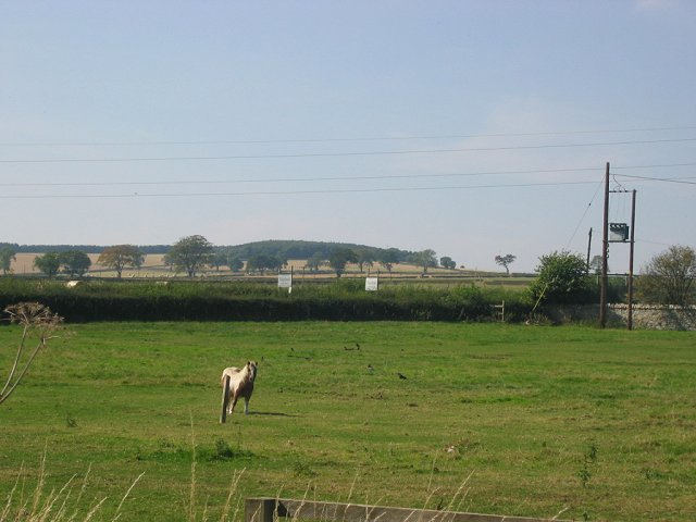 Horse paddocks, Edgehead. By the crossroads, just south of Edgehead. A lot of livery stables in this area.